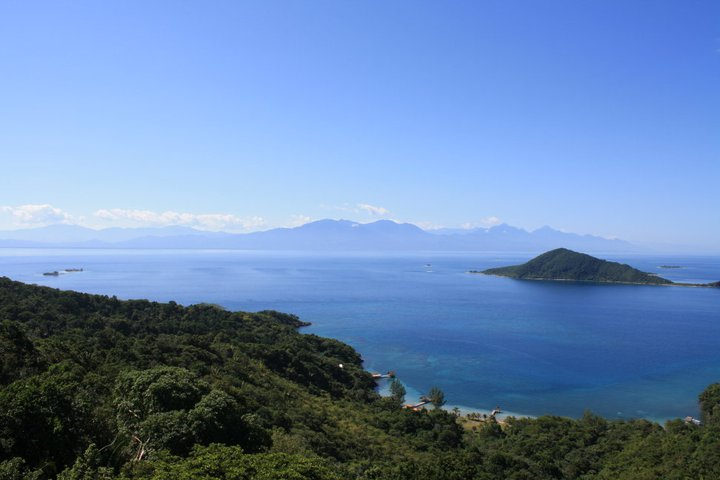 A southeast view from the top of lighthouse in Cayos Cochinos, Bay Islands looking to mainland Honduras.